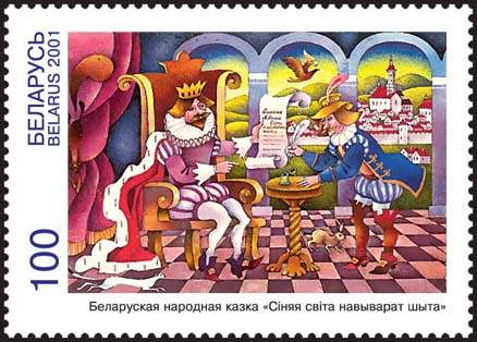 Stamp of Belarus